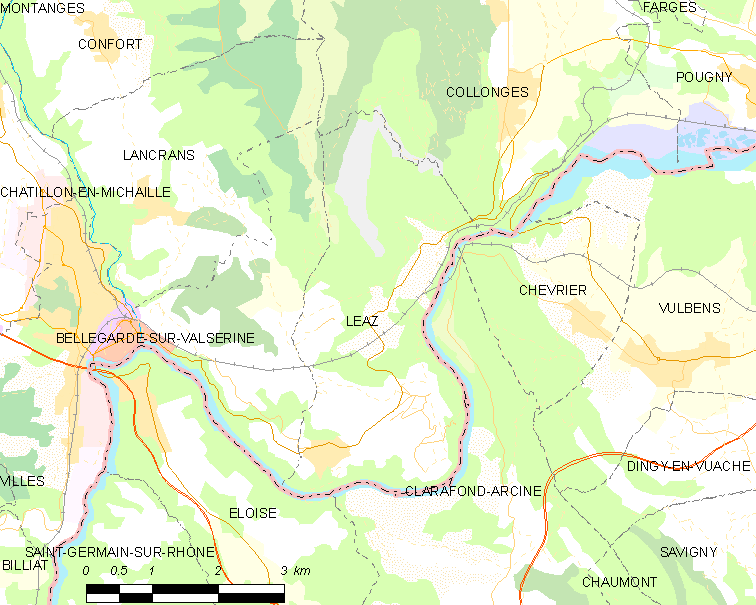 Map of French commune: Léaz Map commune FR insee code 01209.png